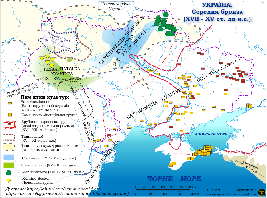 Average Bronze Age in Ukraine (first half I thousand BC.)